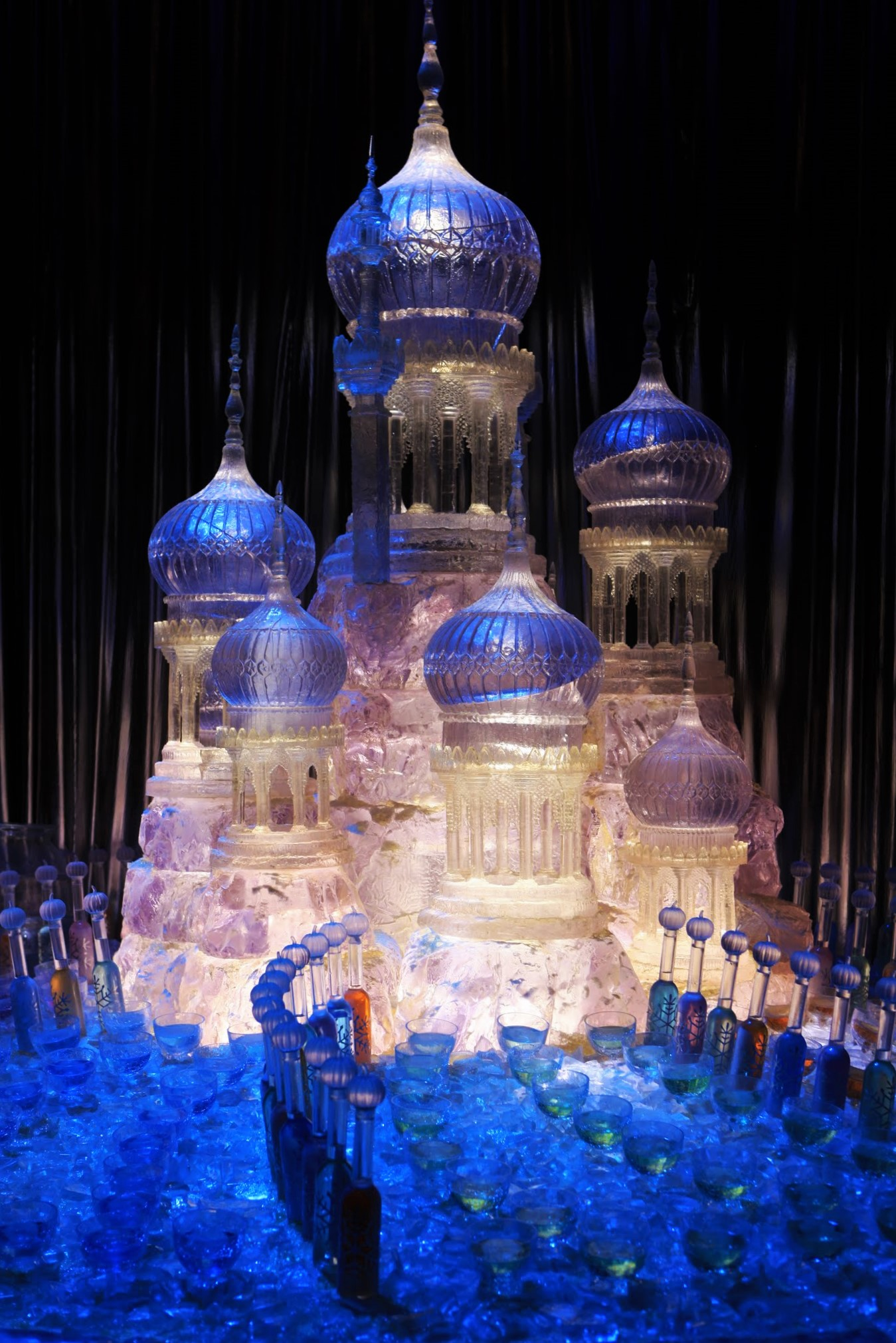 Yule Ball Ice Castle